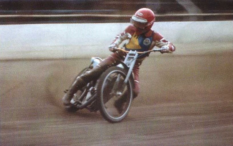 Edward Jancarz - polish speedway rider.